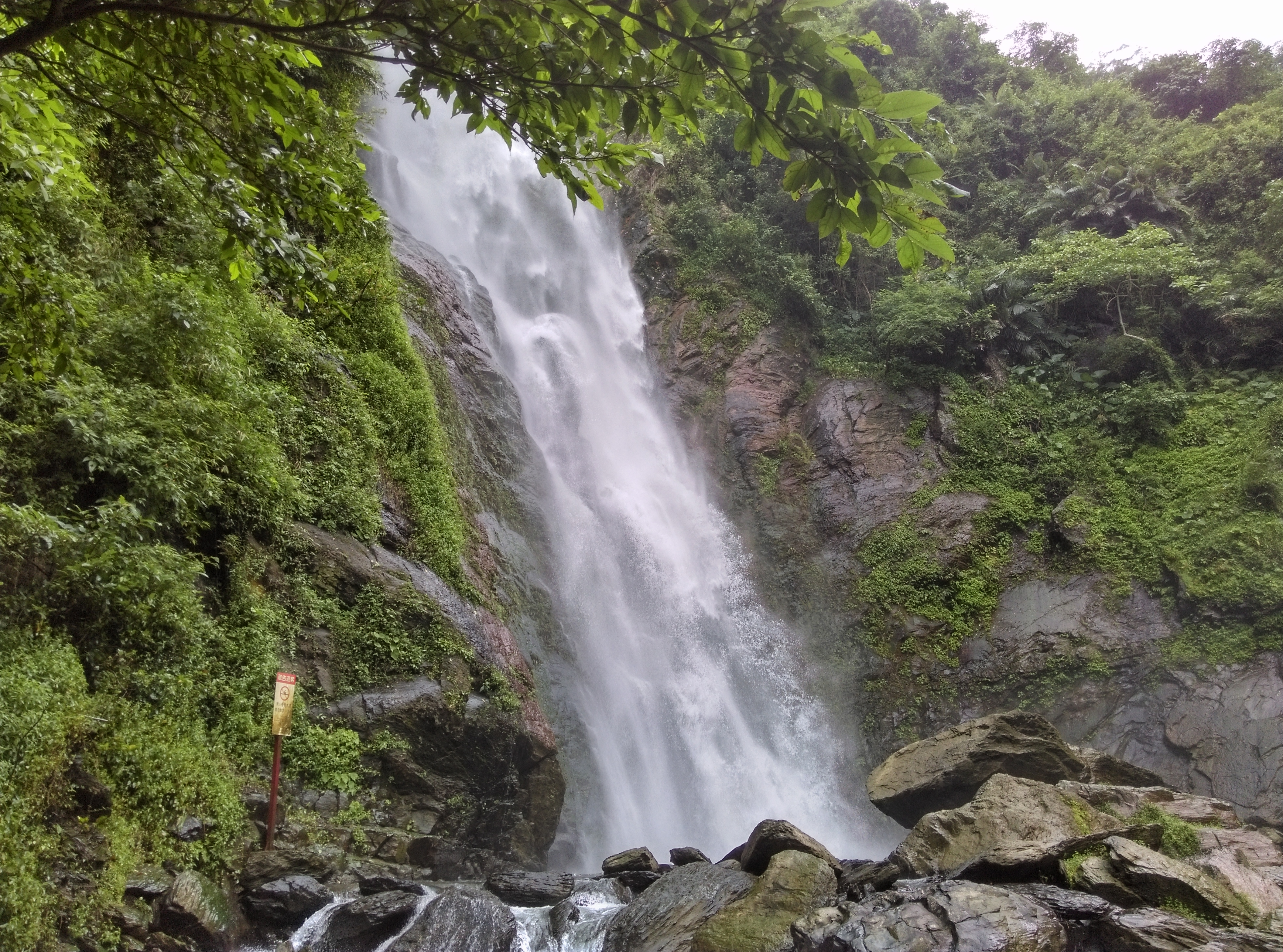 The third level of Liangshan Waterfall.